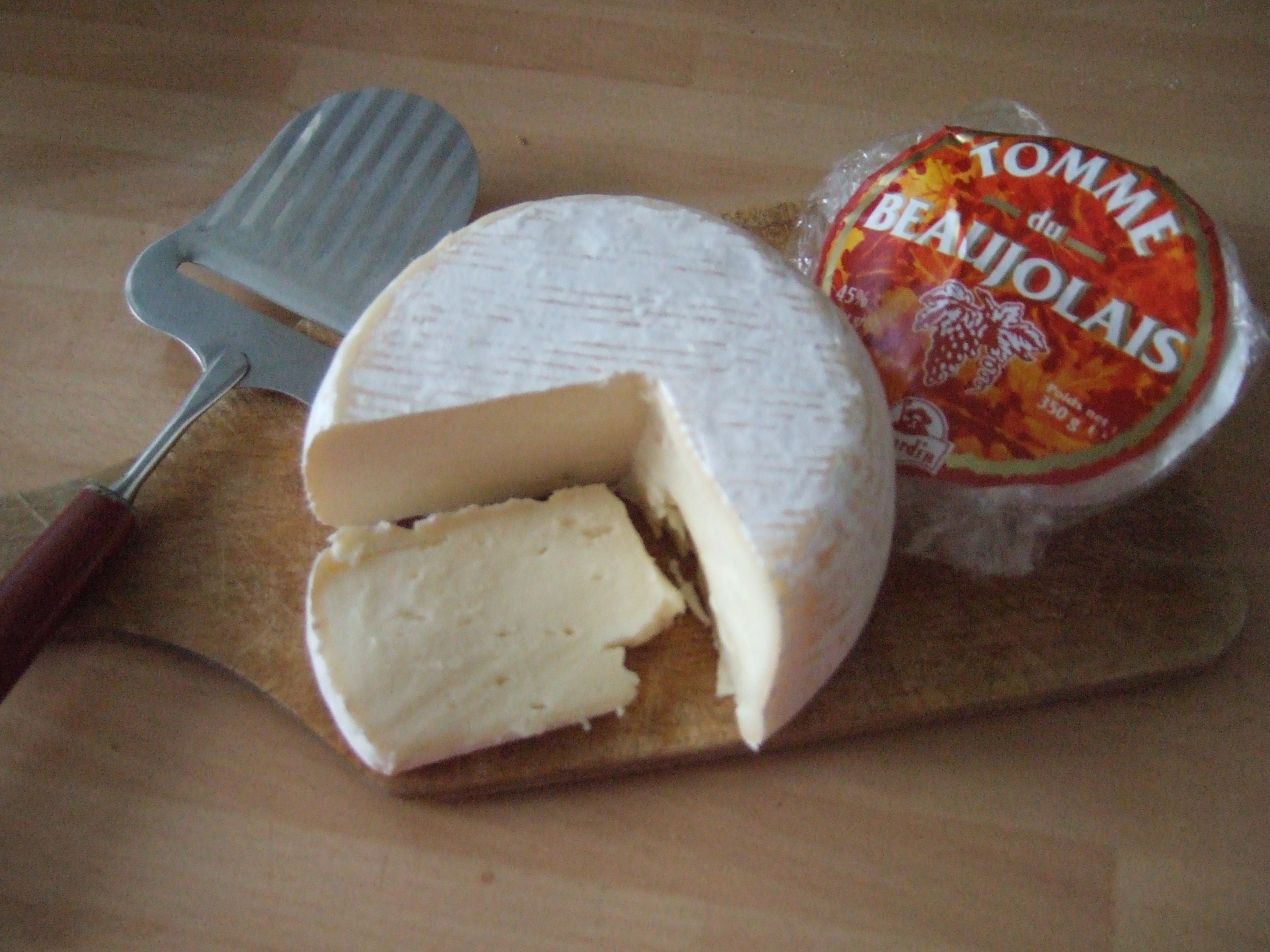 Tomme cheese (in this case, Tomme du Beaujolais)